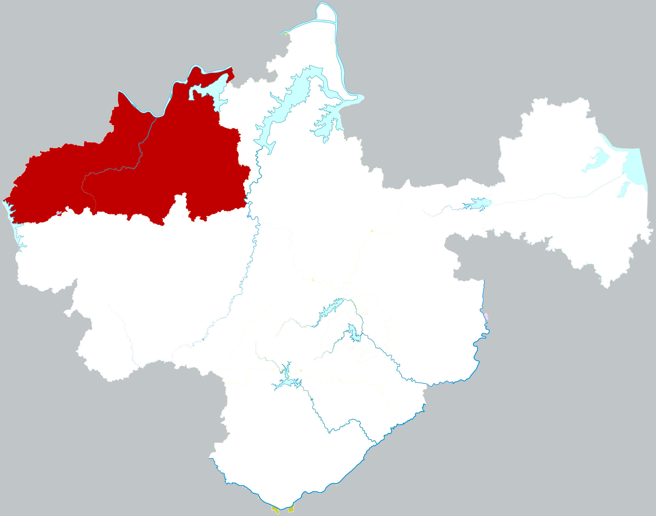 Location of Fengyang county in Chuzhou city, China